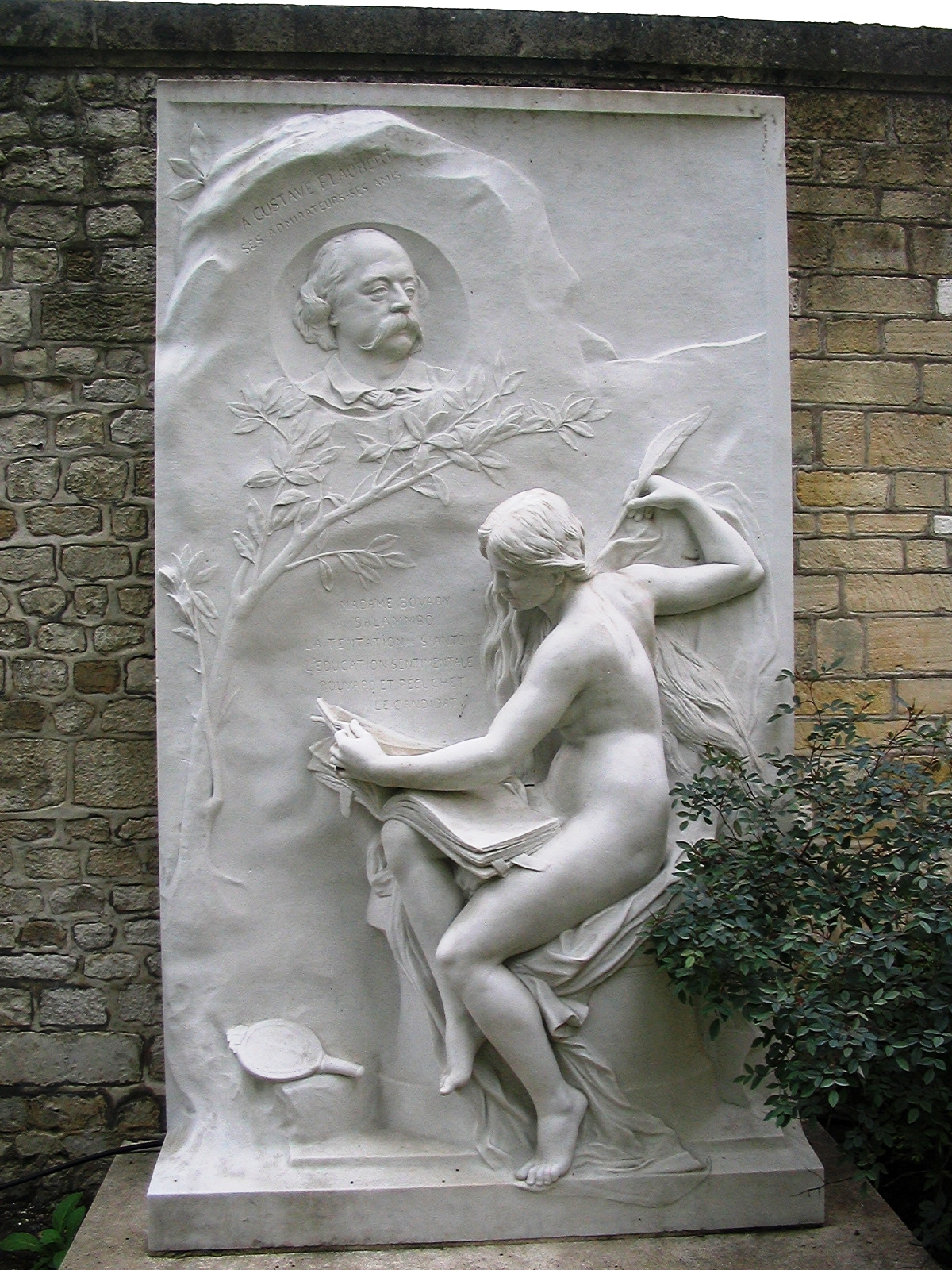 Memorial to Gustave Flaubert's by Henri Chapu